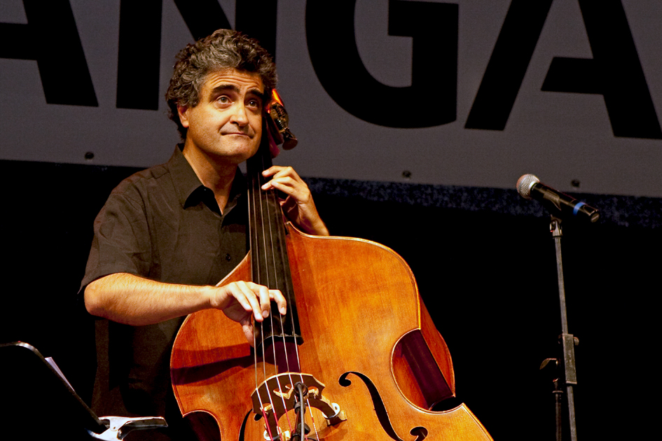 Renaud Garcia-Fons at Wuppertal's sculptur-park Waldfrieden